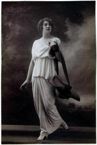 Portrait d'Yvonne de Bray by Léopold Reutlinger, (Callao, 17–03–1863 - Paris, 16–03–1937), photographer, 1913